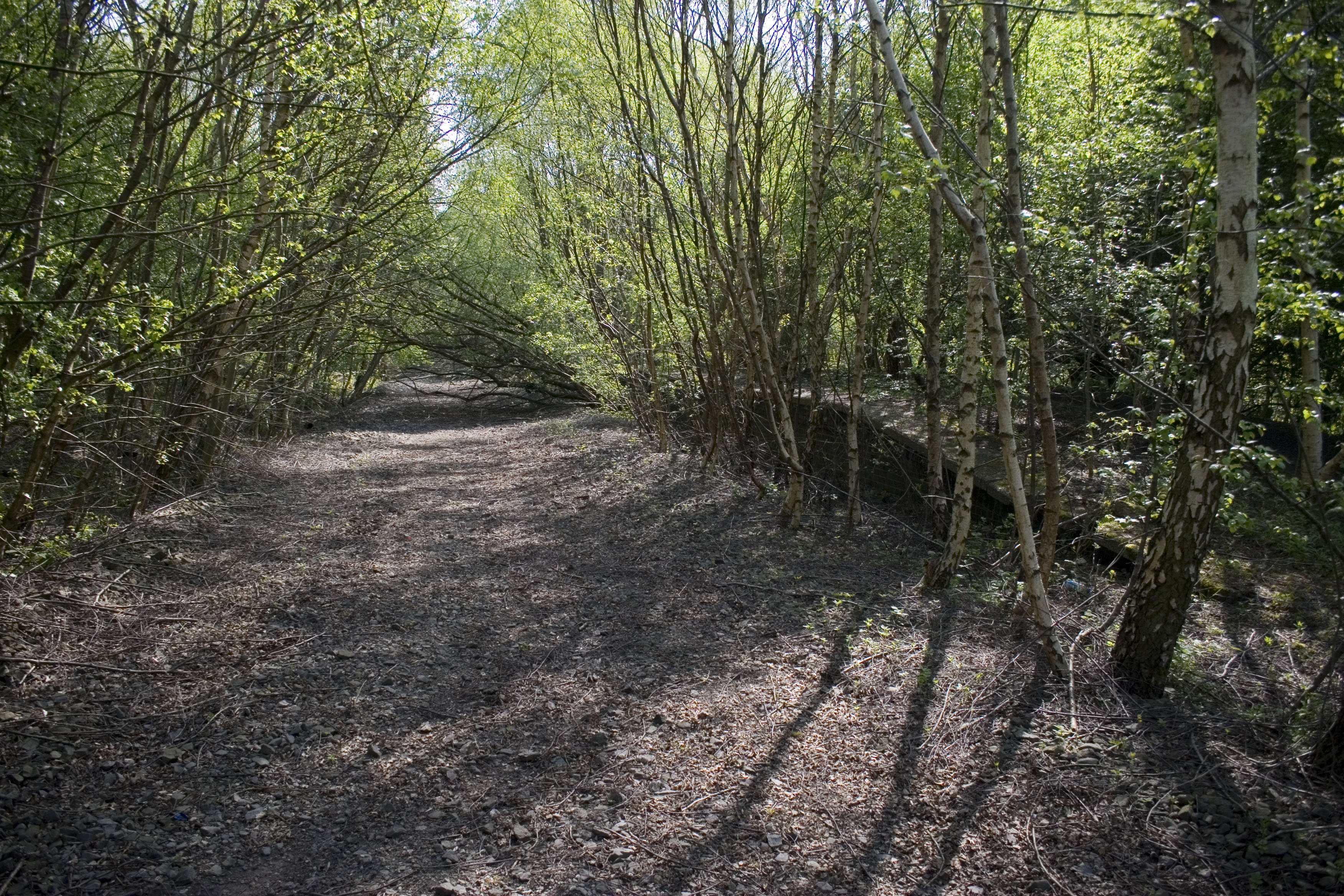 The remains of Partington railway station, looking north.